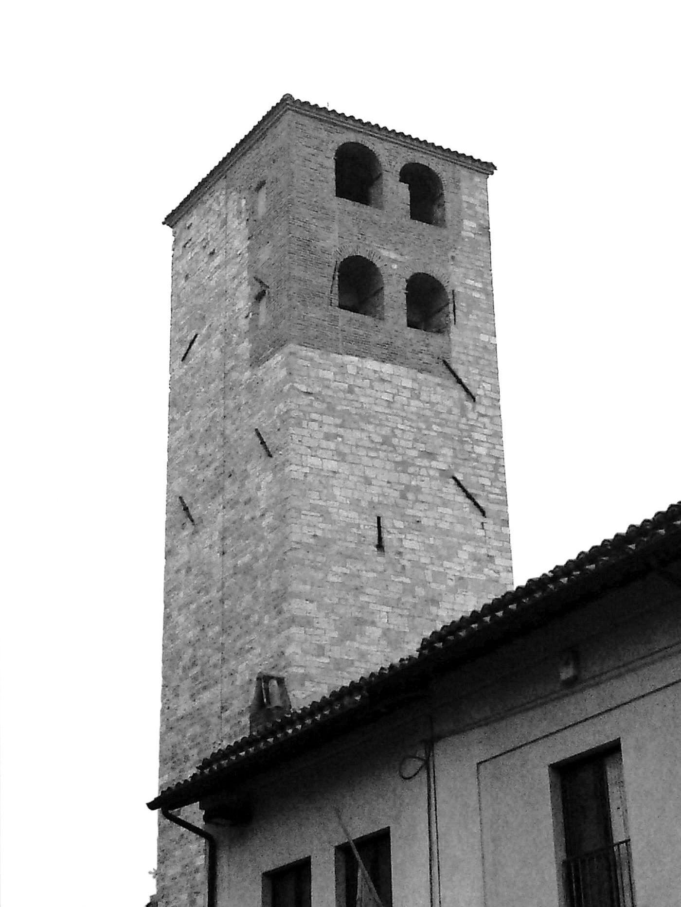 Bell tower of Santa Maria Infraportas Church and Chapel, photographed from the homonymous street. Foligno (Umbria, Italy), October 6, 2016.